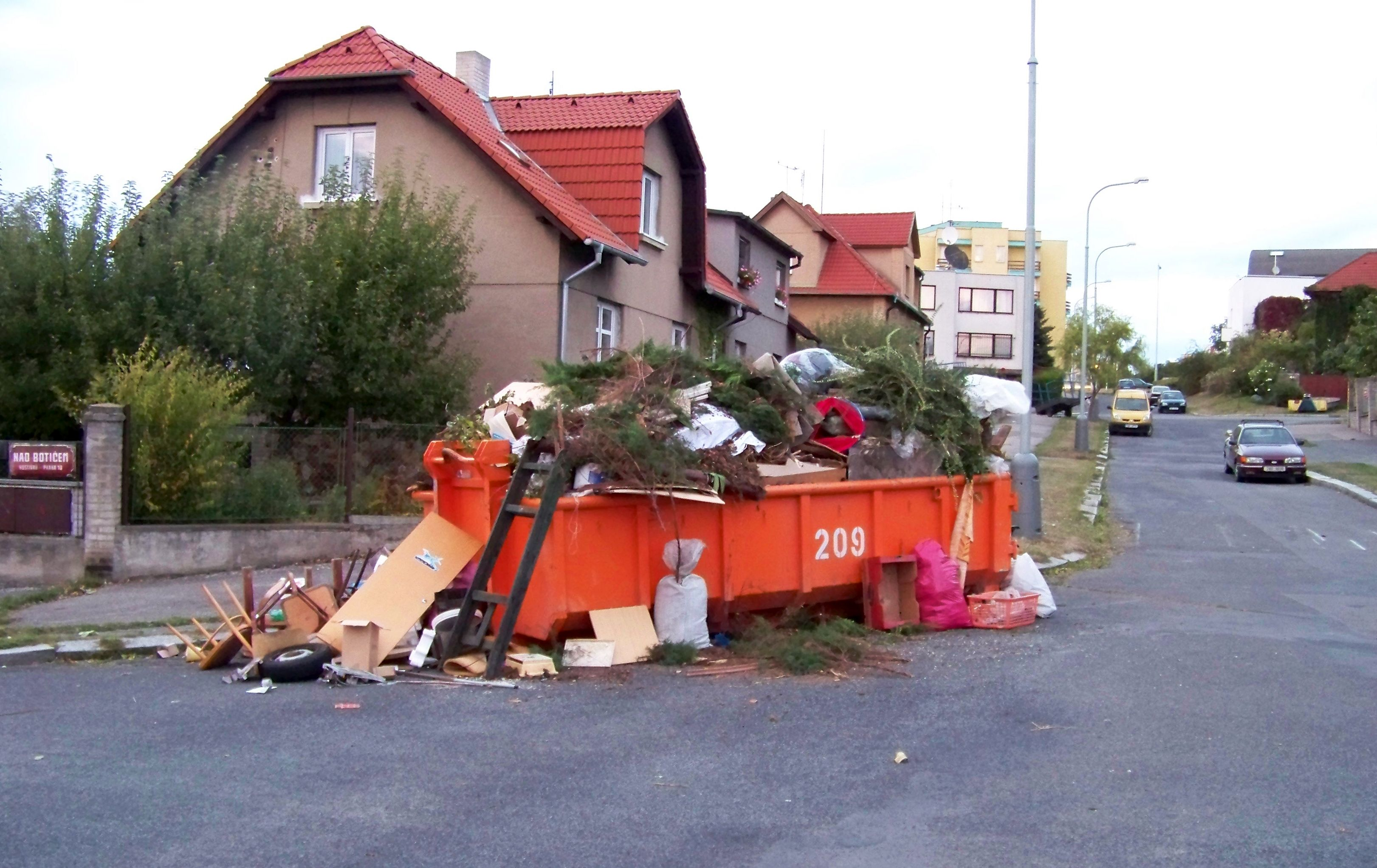 Hostivař, Prague, the Czech Republic. A waste container.